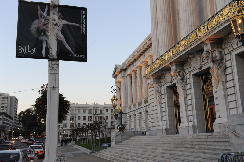 Yuan Yuan Tan poster in front of San Francisco City Hall